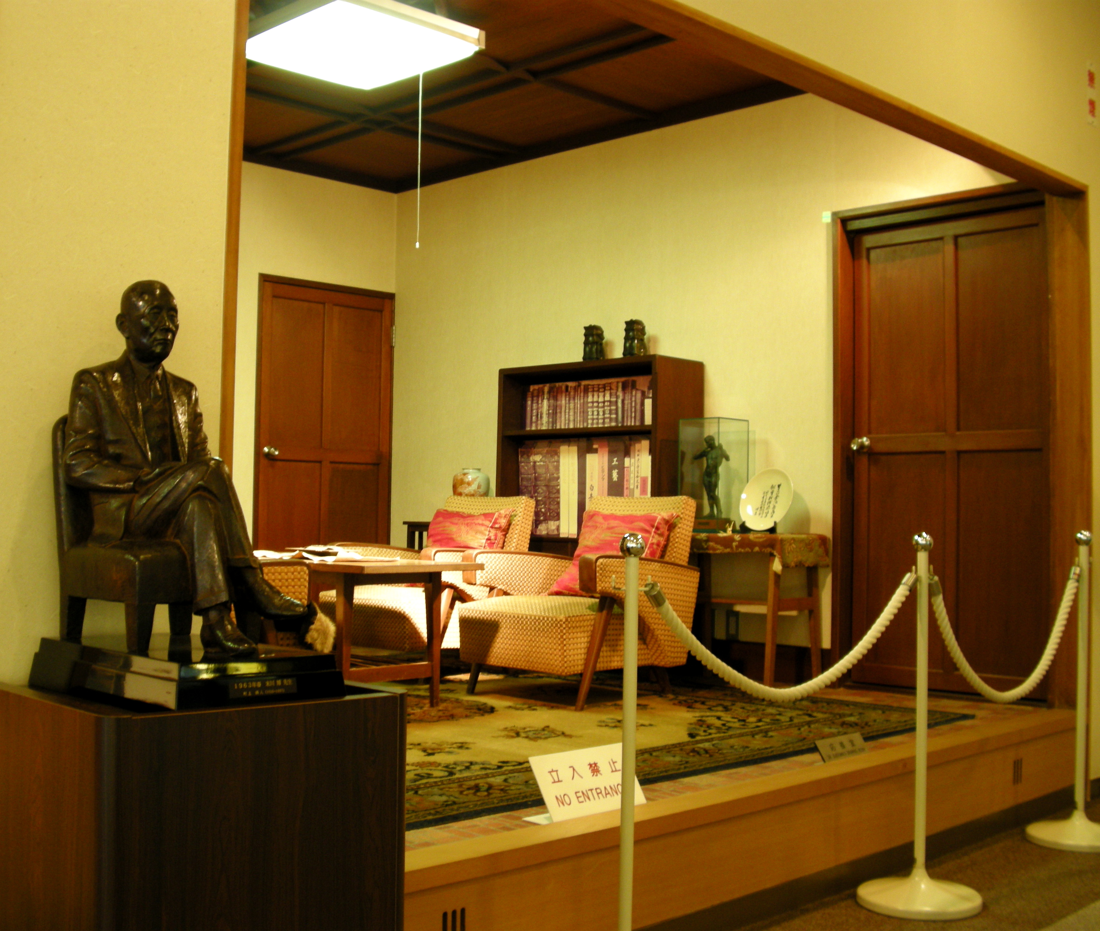 Exhibit Room of Suekawa Memorial Hall (Ritsumeikan University, Kyoto, Japan)